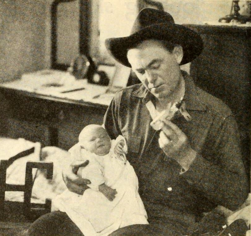 Harry Carey and his son Harry Carey, Jr., at 8 days old, page 78 of the September 1921 Photoplay.